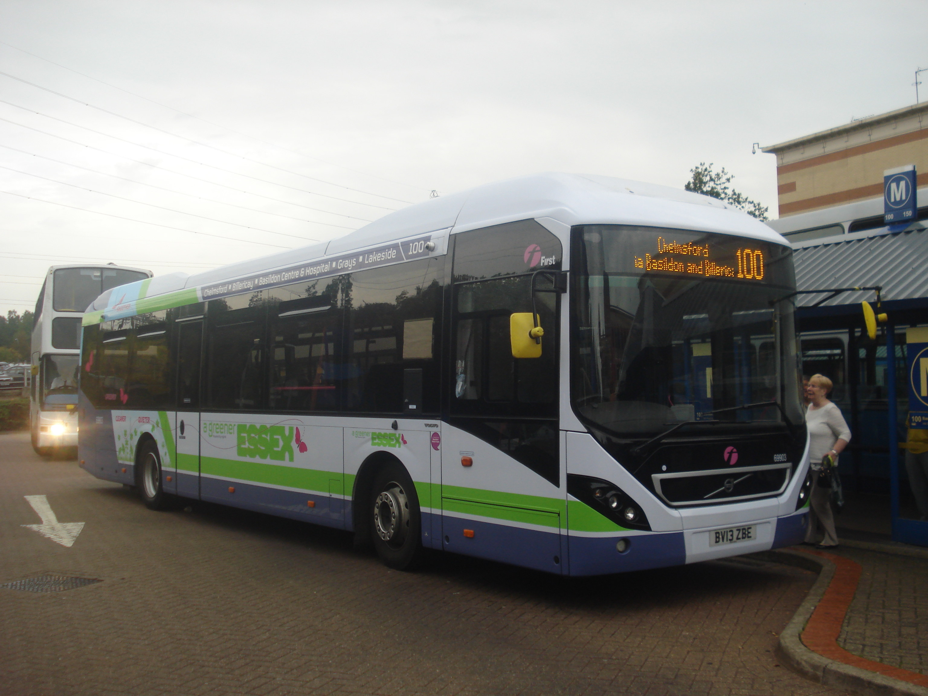 First Essex 69903 on Route 100, Lakeside